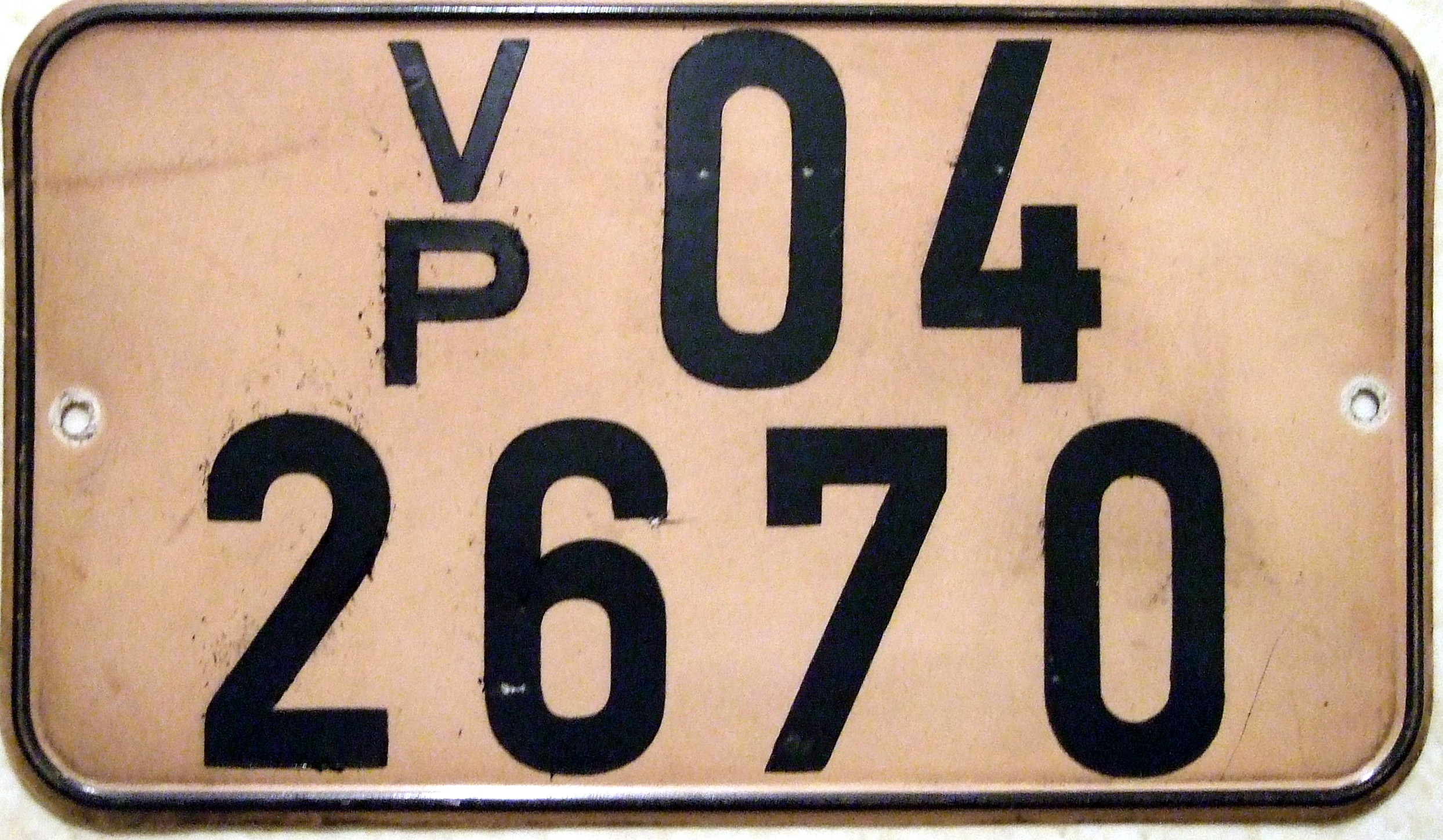 License plate of the peoples police of East Germany from the 1960's